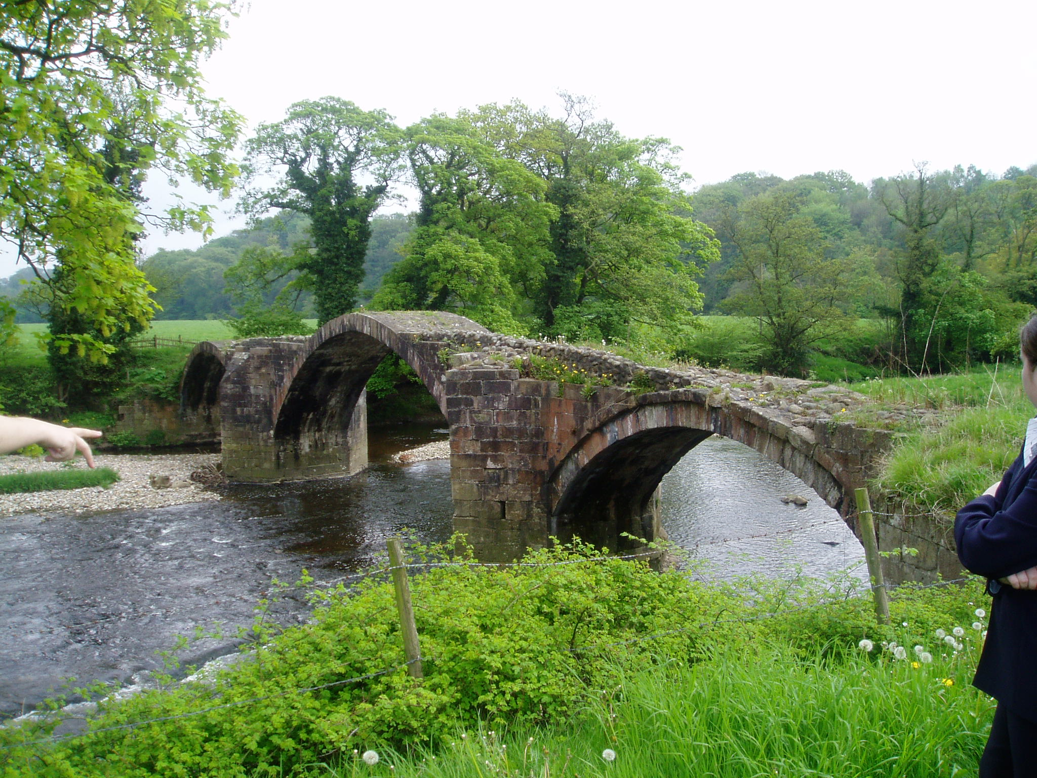 Old Bridge, Aighton, Bailey and Chaigley.